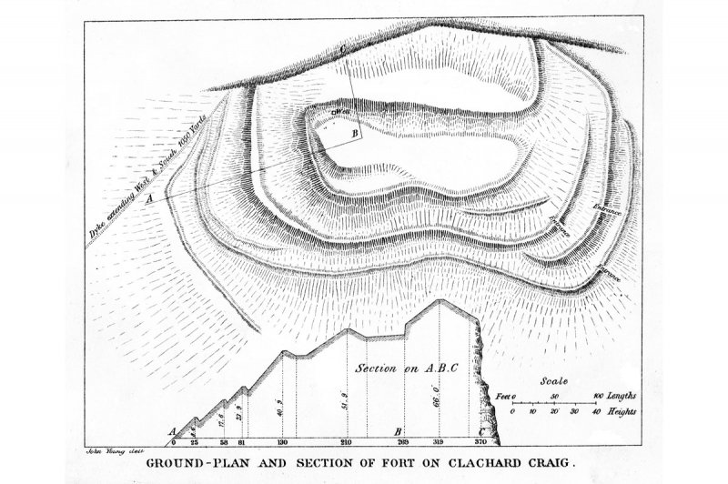 A plan of the fort of Clatchard Craig in Fife, Scotland. Prepared in 1933 by RCAHMS.